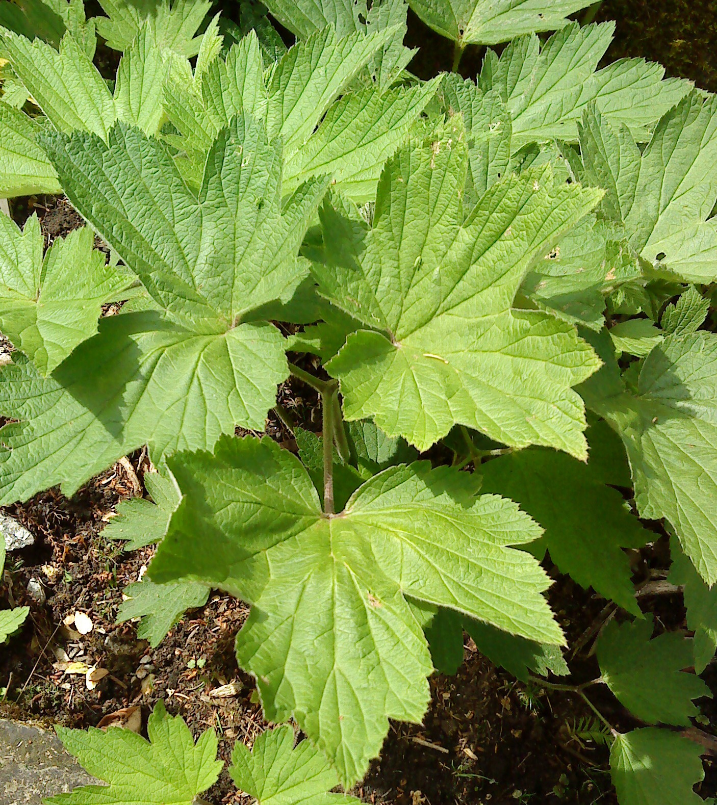 thimbleweed (Anemone hupehensis)